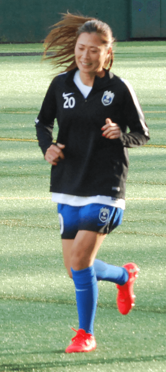 Rumi Utsugi, Seattle Reign FC vs Houston Dash, April 22, 2017, Memorial Stadium, Seattle, WA